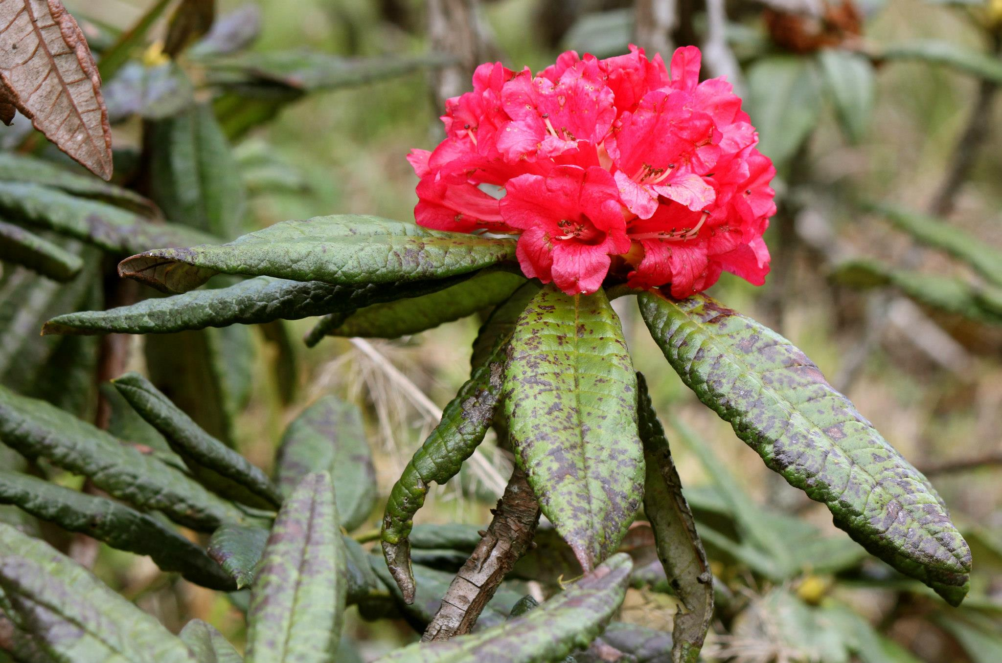 Flower of Rhododendron arboreum zeylanicum. This photo was taken at Horton Plains National Park